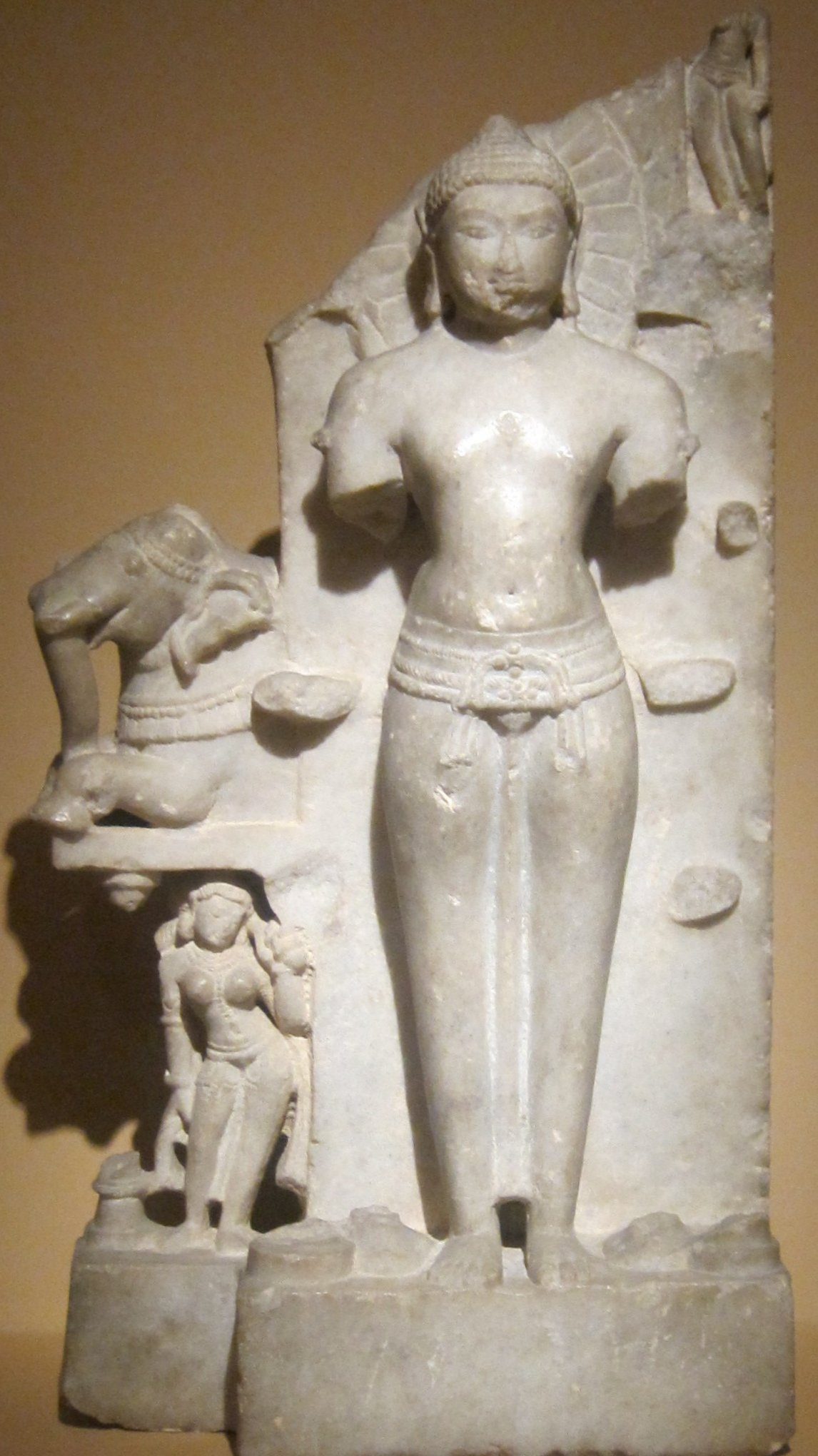 Tirthankara (possibly Ajitanatha) India, Southern Rajasthan, ca. 12th century Marble Honolulu Academy of Arts Purchase, 1930 (2991)